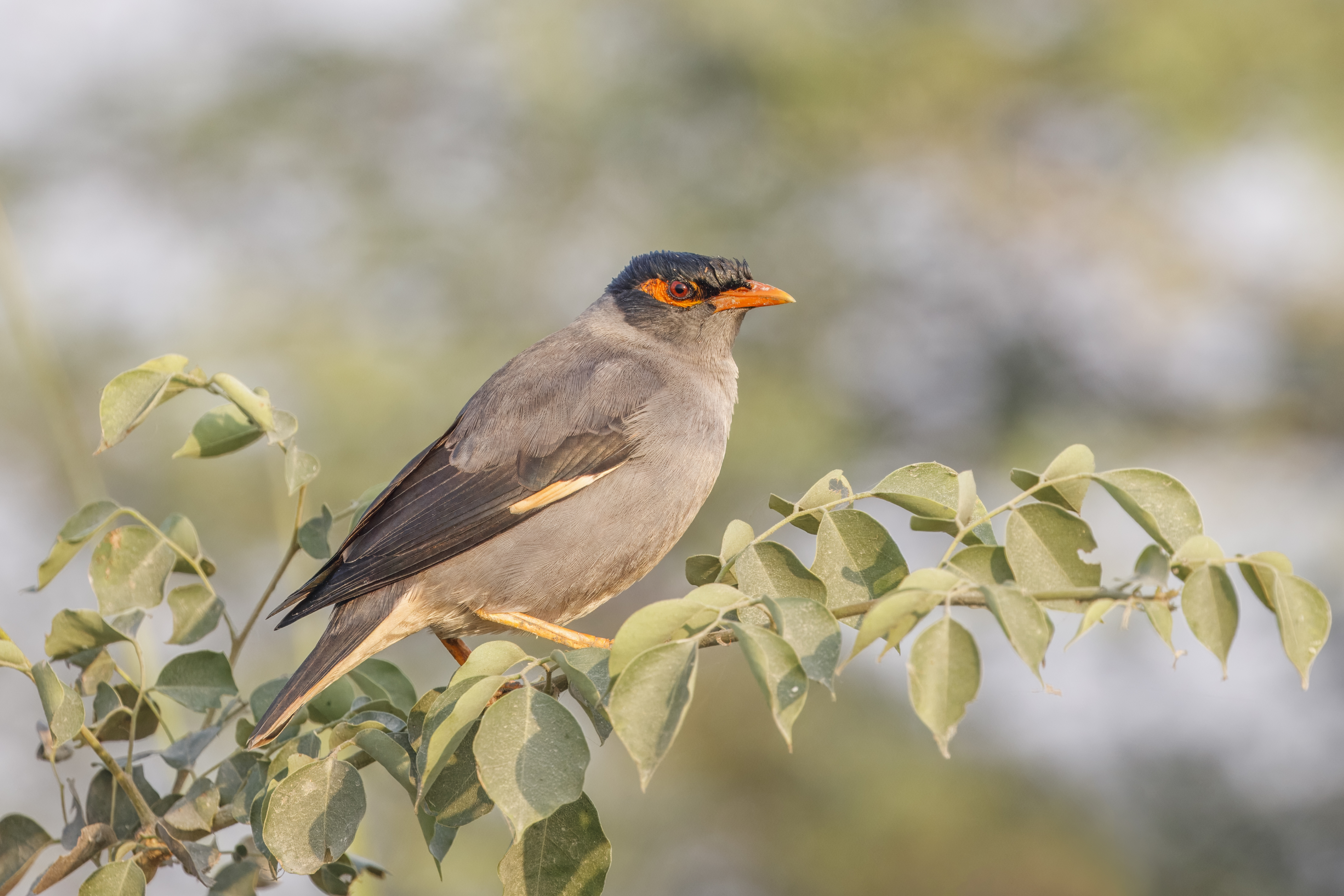 Bank myna (Acridotheres ginginianus), Salai, UP, India